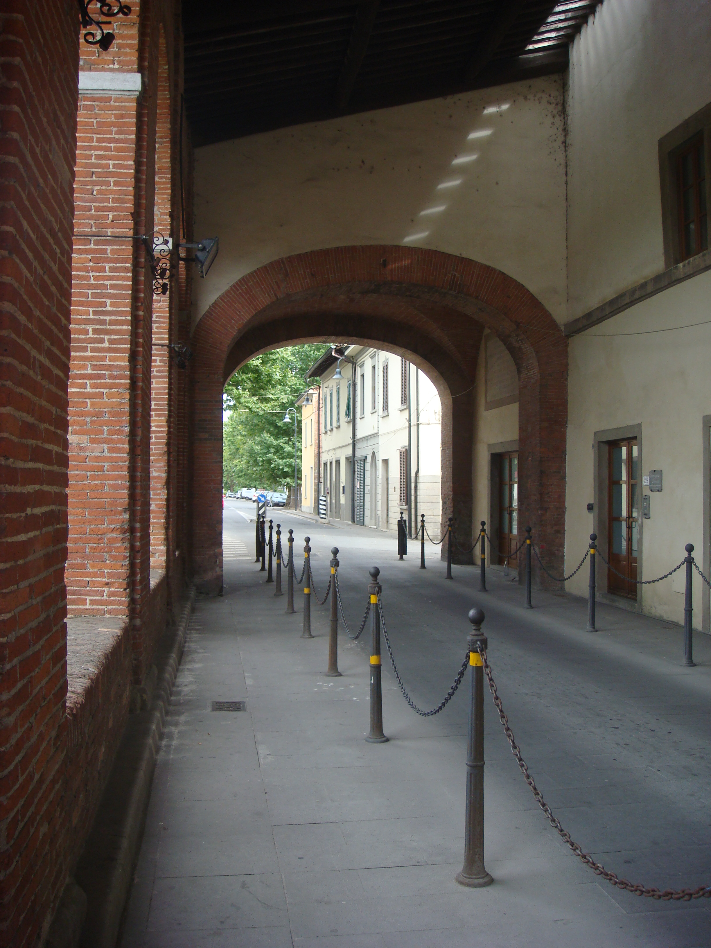 View of Ponte a Cappiano bridge